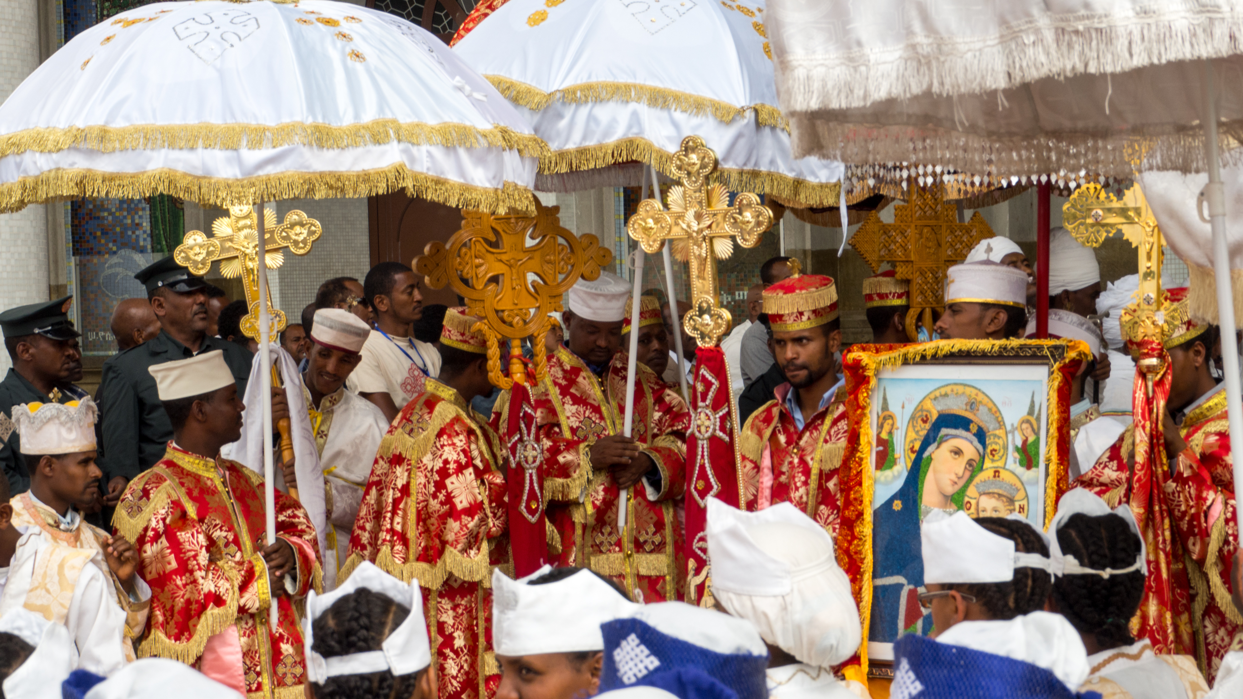 Orthodox priests showing painting of Saint Mary, during the 2015 Timkat ceremony, in front of Medhane Alem church, Addis Ababa, Ethiopia